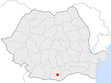 Location of Alexandria in Romania.